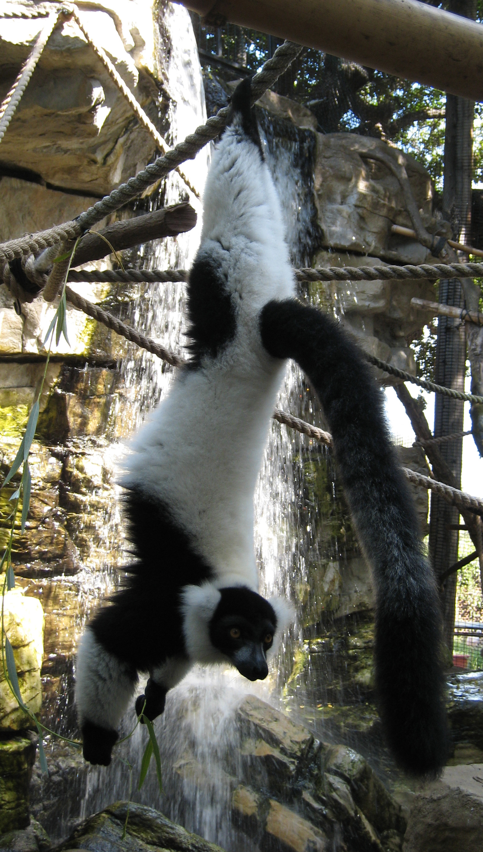 Black-and-white Ruffed Lemur (Varecia variegata) hanging in suspensory posture; taken at the Santa Barbara Zoo